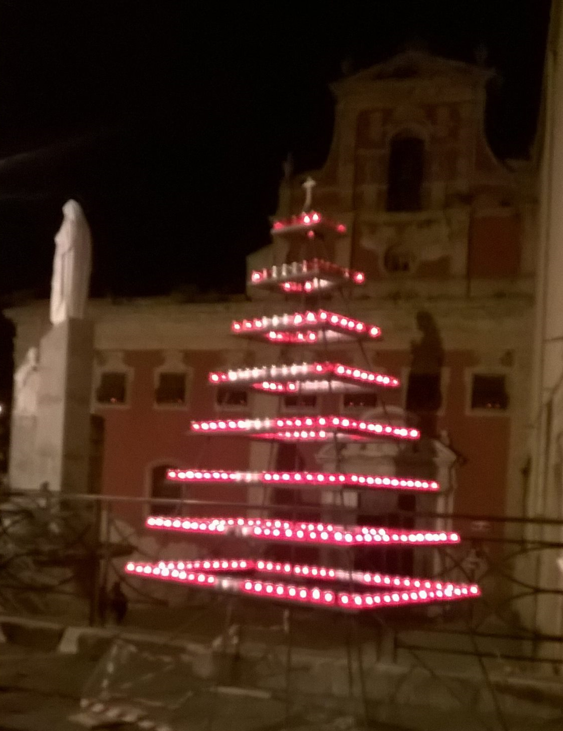 Candles in front of the Church of the Holy Cross in Caltanissetta, Italy